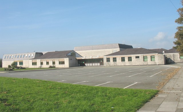 Ysgol Uwchradd Bodedern Secondary School This is a Welsh medium secondary school.